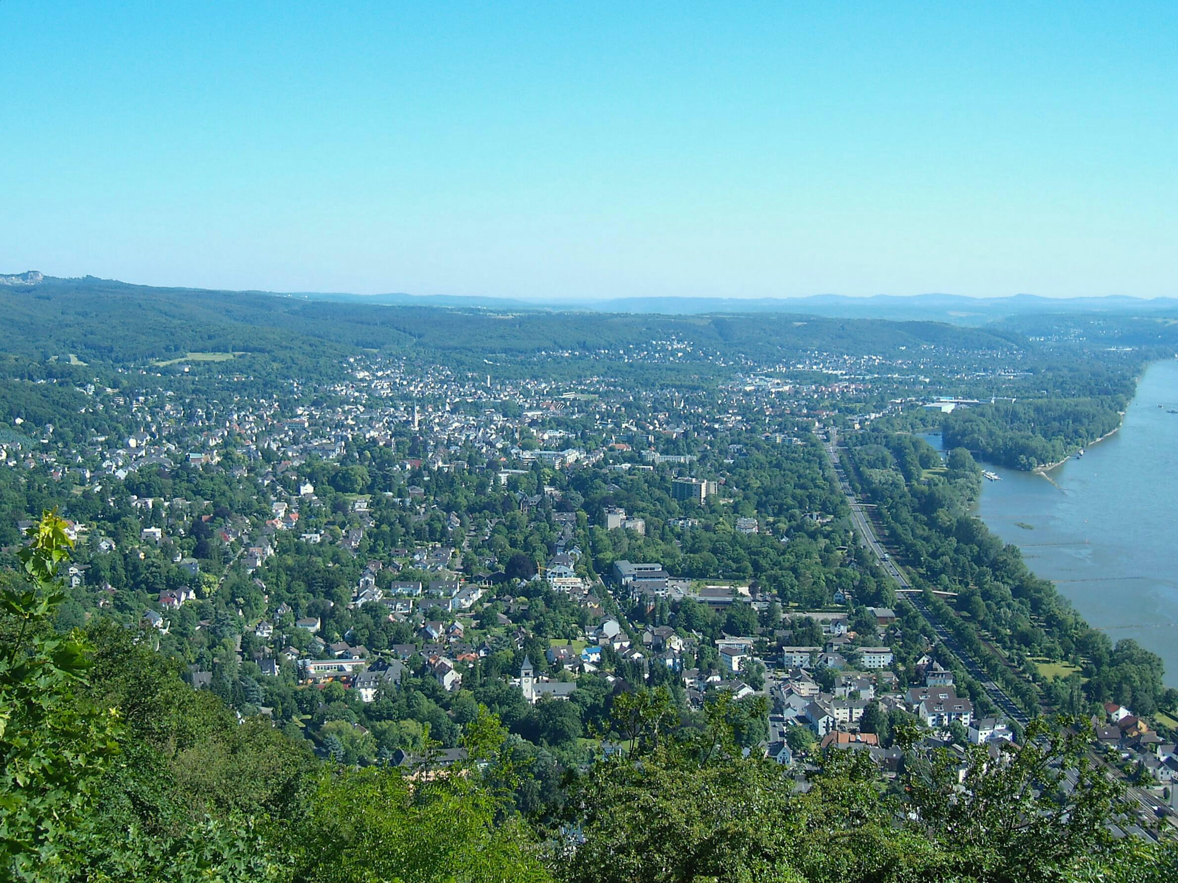 Bad Honnef seen from the Drachenfels (“Dragon's Rock”).